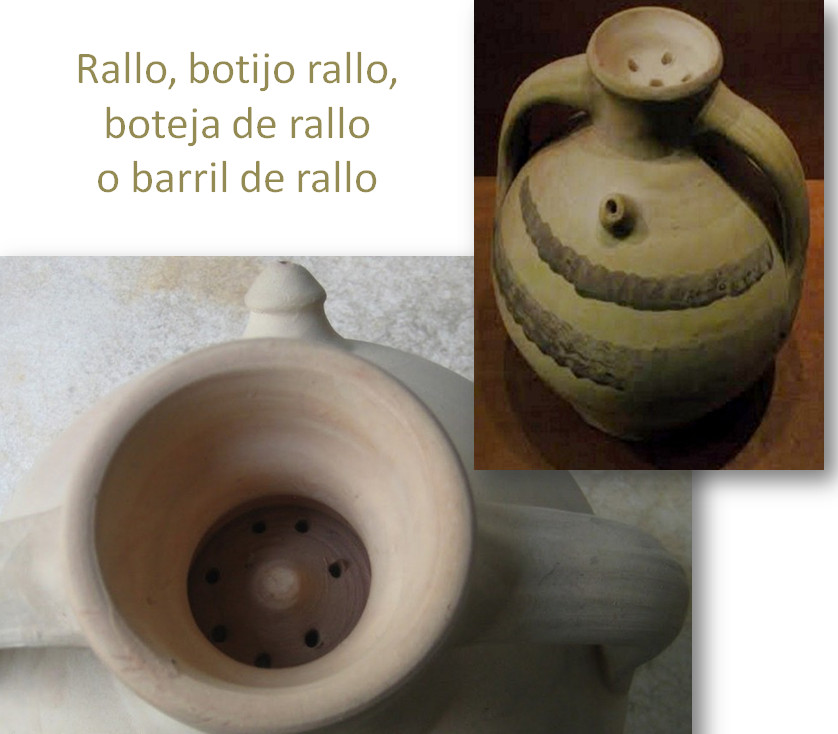 The 'rallo' is a special type of jug (botijo) with two opposing handles and little spout, with a wide mouth with small holes that characterizes him. Its etymology seems to split 'Shredder' (from the latin 'rallum' (derived from 'radere'). It is a piece of pottery of traditional water of Aragón and Navarra. Documentation: Natacha Sesena and Rosa Maria Castañer Martin.